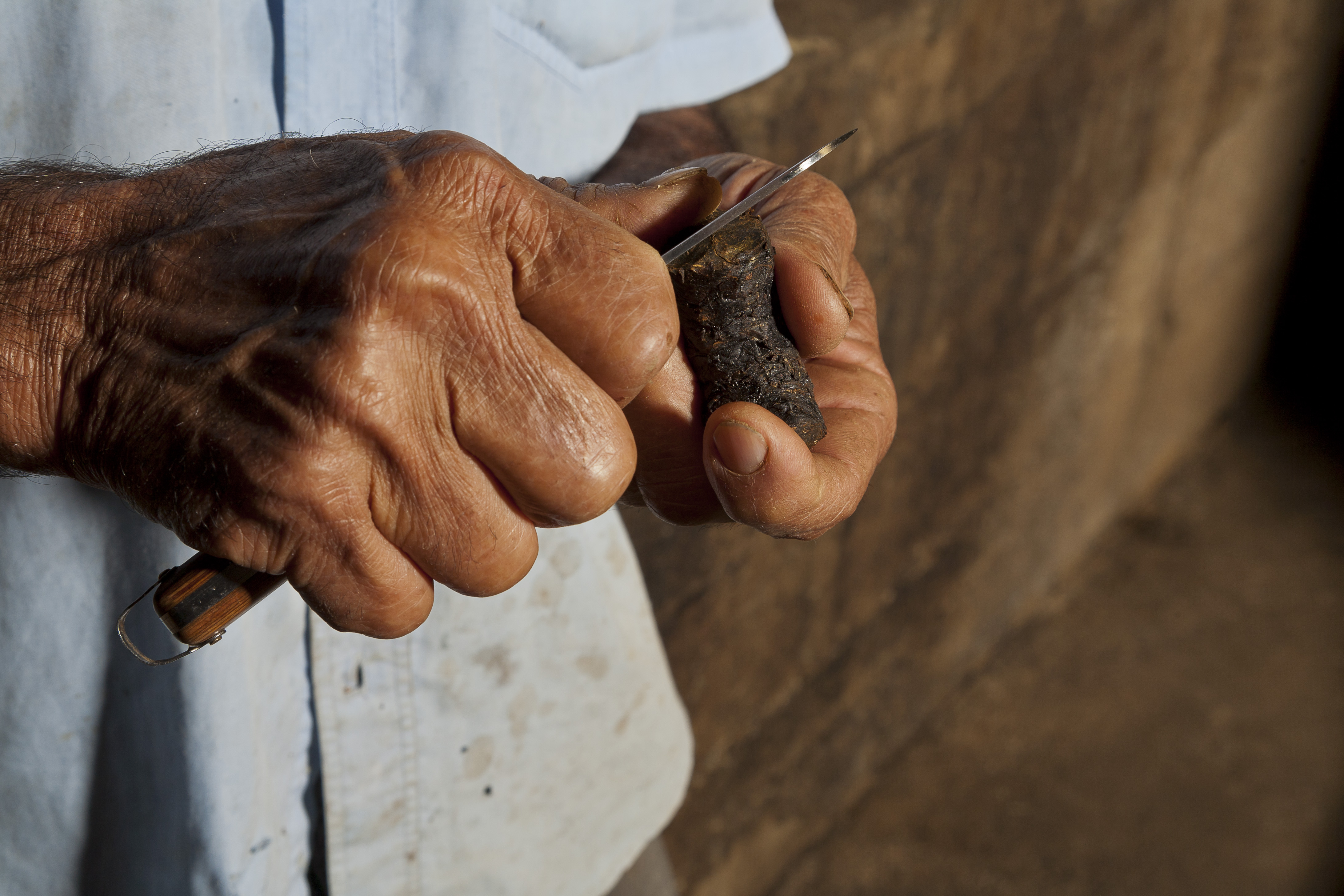 Roll-your-own cigarettes (also called RYO, MYO,rollies, roll-ups, hand-rolled cigarettes, or simply rolls) refer to a cigarette made from loose tobacco and rolling papers. Roll-your-own products are sold as a pouch of tobacco for rolling hand-rolled cigarettes, sometimes with the rolling papers provided in the pouch. Loose filters can also be bought and added to the rolled cigarettes. Some people add marijuana to a hand rolled cigarette. Hand-rolled cigarettes give smokers the ability to roll cigarettes of any diameter they choose, and hence vary the strength of the cigarette. Many people use machines, from hand injectors to large machines in stores, to make cigarettes for themselves. Rolling tobacco can be additive free, although premium additive free products are available.[citation needed] Like all tobacco products, smoking causes various diseases. Cigarettes made with pipe tobacco are cheaper in the United States than factory-made cigarettes.